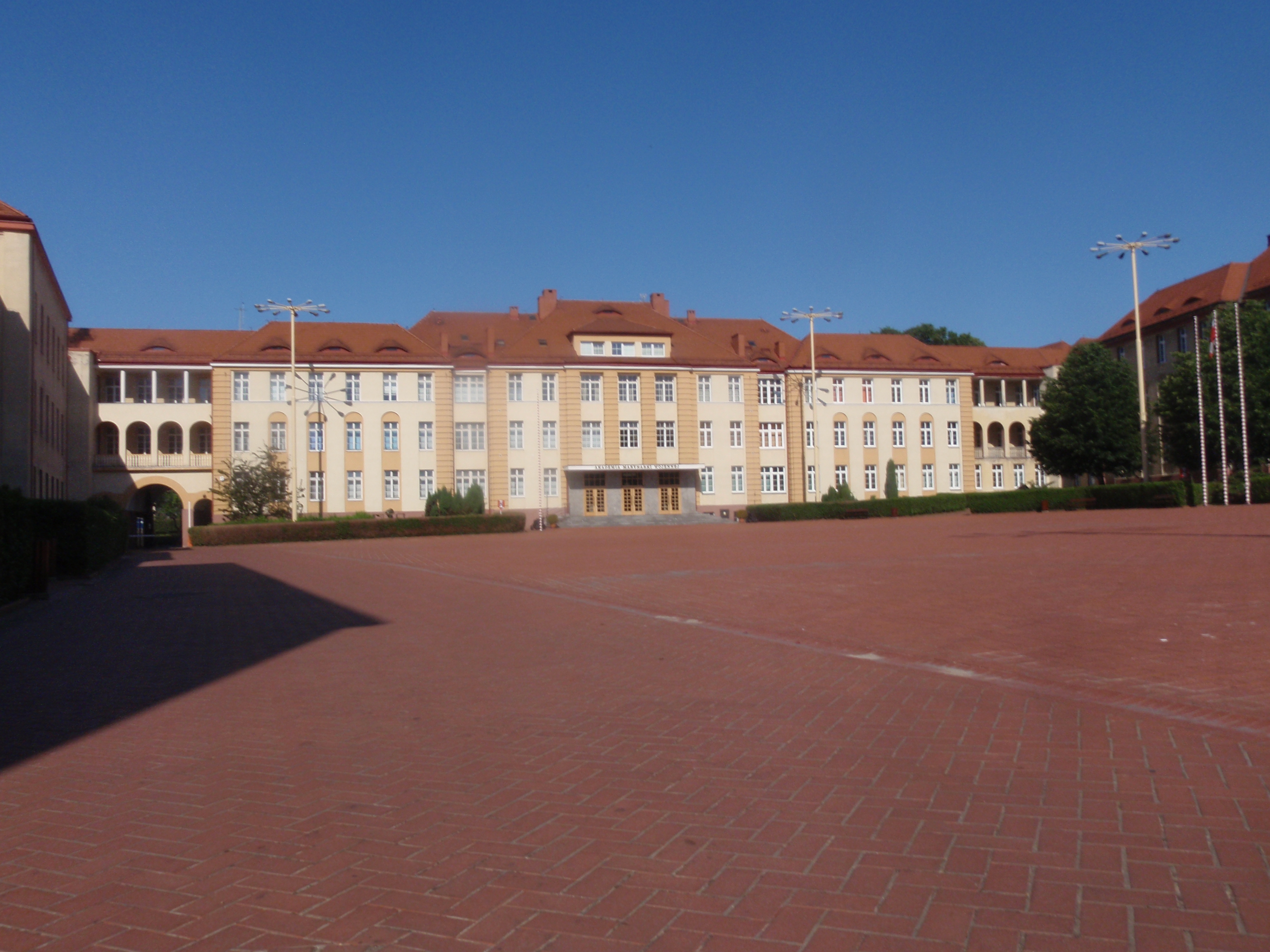 Courtyard of Polish Naval Academy, Gdynia.